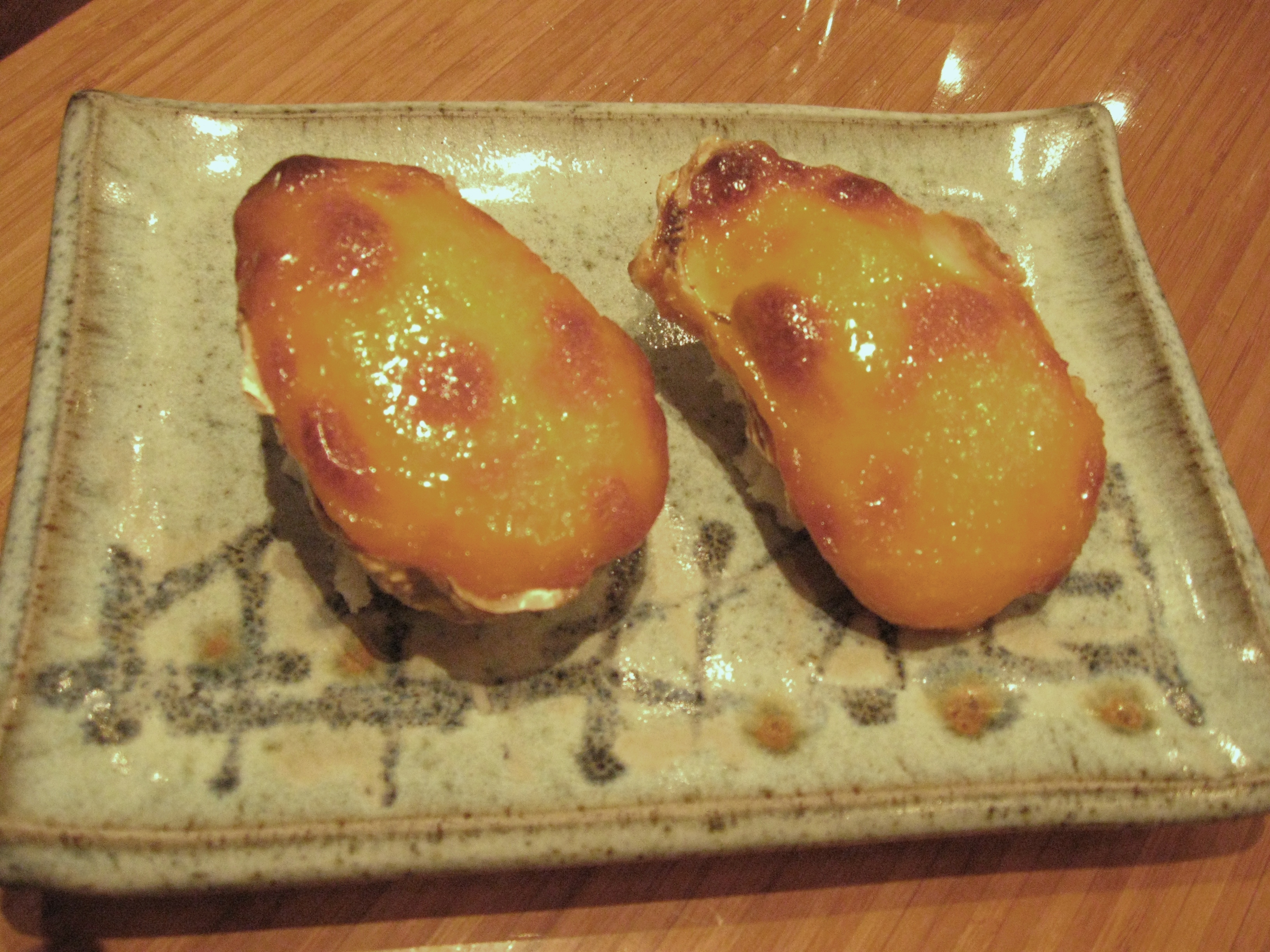 Pacific baked oysters covered in a special sauce